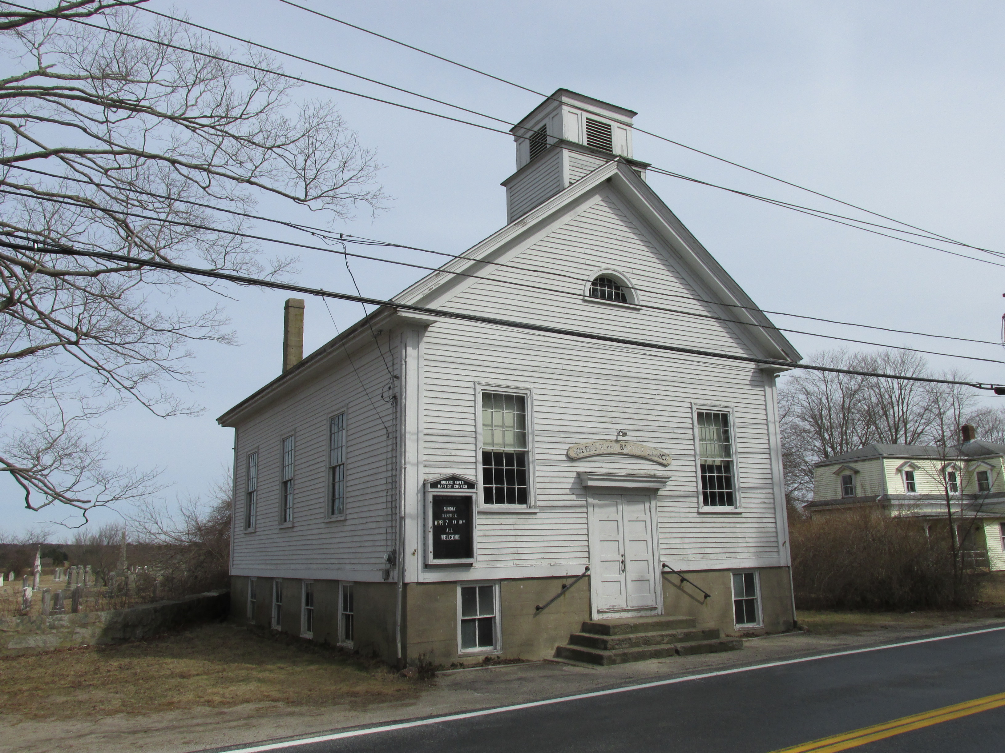 Queens River Baptist Church, Usquepaug Rhode Island